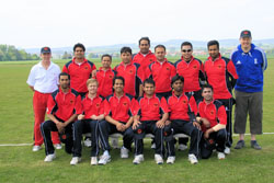 Germany national cricket team in Seebarn, Austria